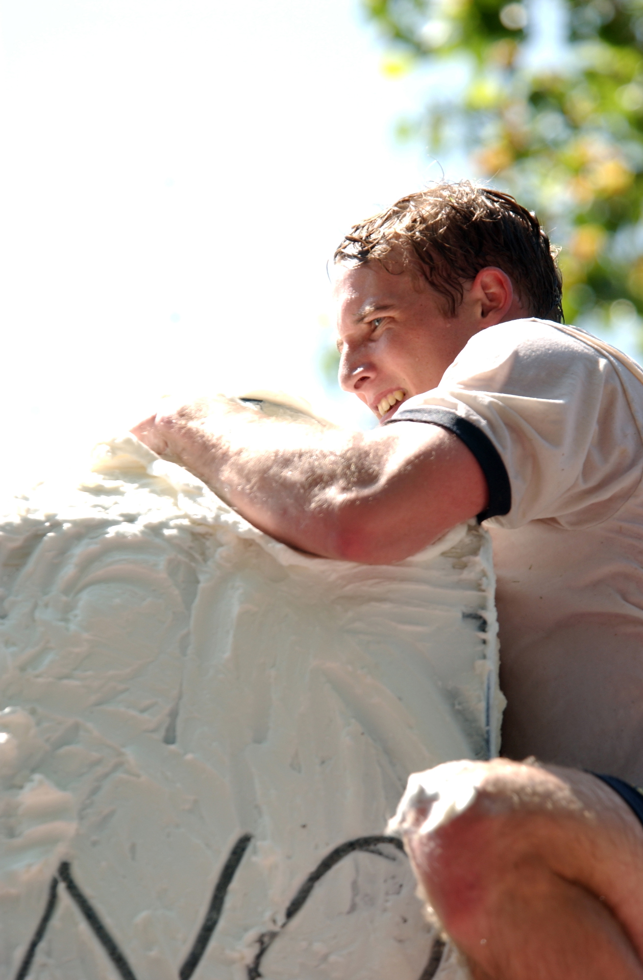 U.S. Naval Academy, Annapolis, Md. (May 19, 2003) - Daniel Shea, a U.S. Naval Academy freshman "Plebe," of Lake Hurst, N.Y., reaches for the white "dixie-cup” hat while climbing "Herndon", a 21-foot gray monument covered in more than 200 pounds of lard, to mark the end of plebe year. At the firing of cannons, the plebe class works together to attempt the climb up the lard-covered obelisk to retrieve a white plebe "dixie-cup” hat from the top of the monument as thousands of spectators watch. According to legend, the plebe who replaces the "dixie-cup” hat with a midshipman cover will become the first member of the class to become an admiral. The Class of 2007 freshmen will try their hand at "Herndon" on May 20, 2004 at the Academy. U.S. Navy photo by Photographer's Mate 1st Class Brien Aho. (RELEASED)